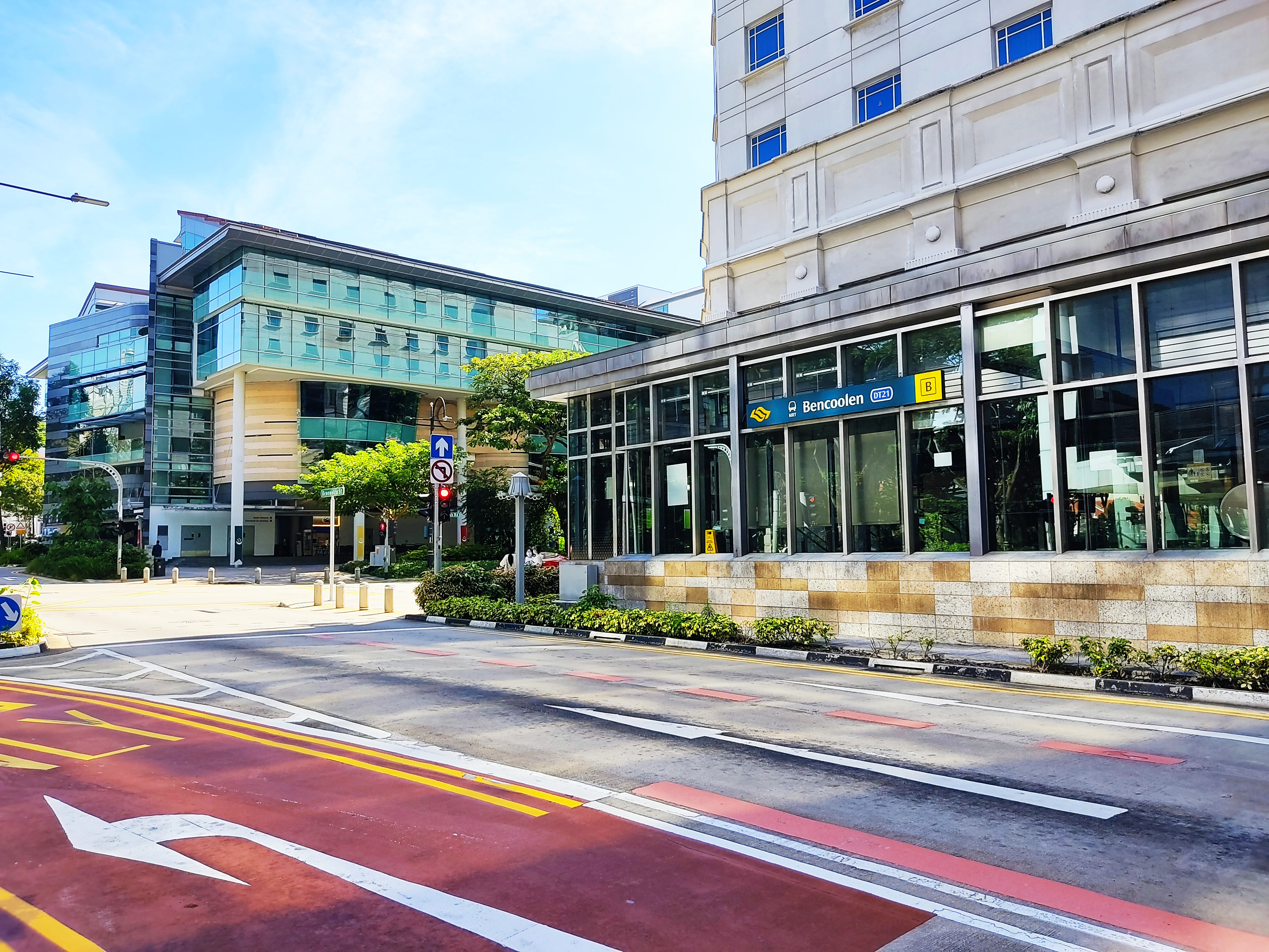 Bencoolen MRT station